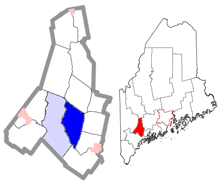 Map of the divisions of Androscoggin County, Maine, United States, with the city of Lewiston highlighted in dark blue. The city of Auburn is light blue; towns are white; and pink areas are census-designated places within towns.